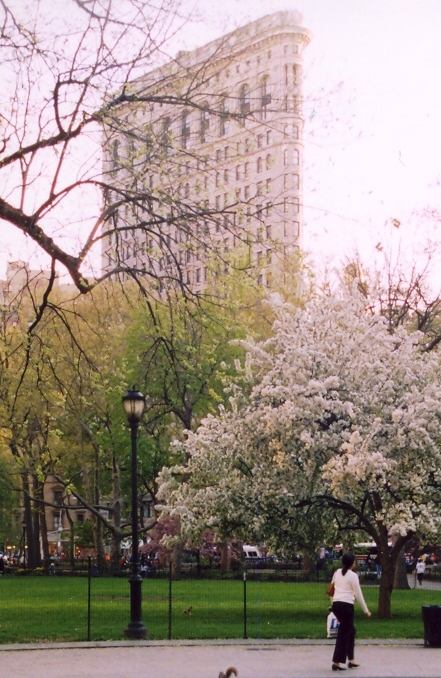 Flatiron Building over Madison Square Park, Manhattan, New York